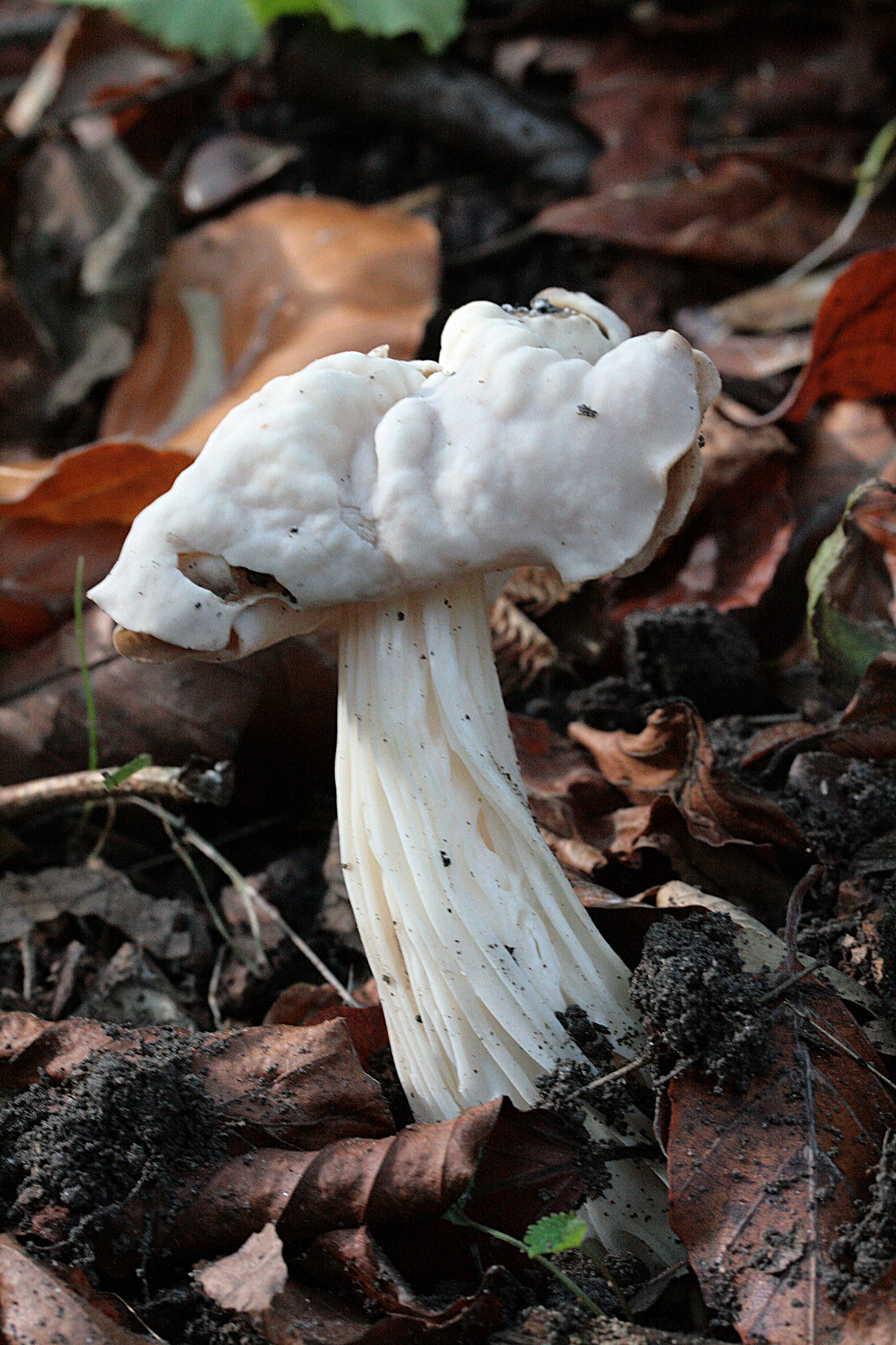 white saddle, elfin saddle or common helvel - Alongside of a pathway - beeches and oaks forest in Havré (Mons), Belgium.